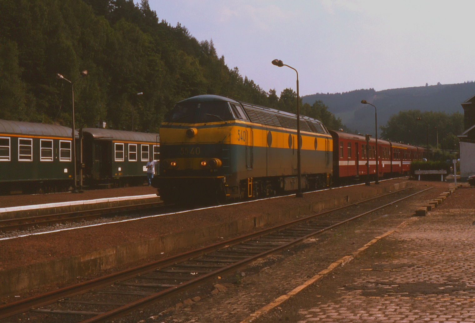 Belgian Railways class 55 no. 5540 on one of its common workings - InterRegional trains on the Liège to Luxembourg line prior to electrification. Seen at Trois Ponts in Belgium on 19 August 1995 is 5540 on train IR116, 14:10 Luxembourg to Liège-Guillemins.